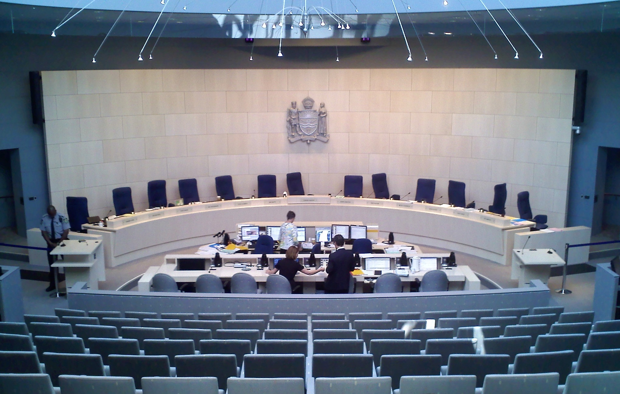 (t to b) Coat of arms of Edmonton, the thirteen seats on Edmonton City Council, clerks man desk, City manager desk (Simon Farbrother, when taken), public viewing seats, in Edmonton City Hall, at 1 Sir Winston Churchill Square, Edmonton, Alberta.